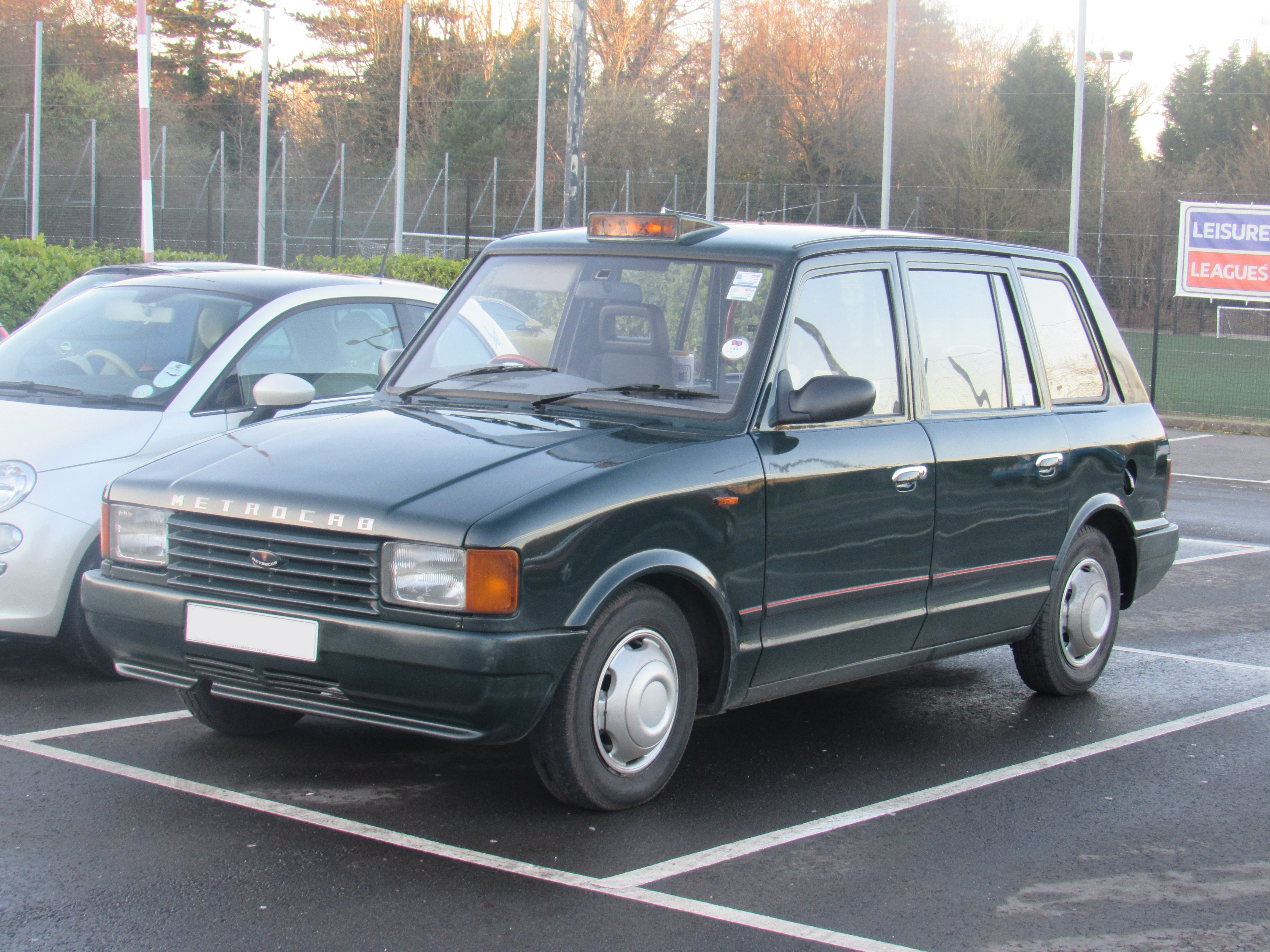 1999 MCW Metrocab Taken in Solihull